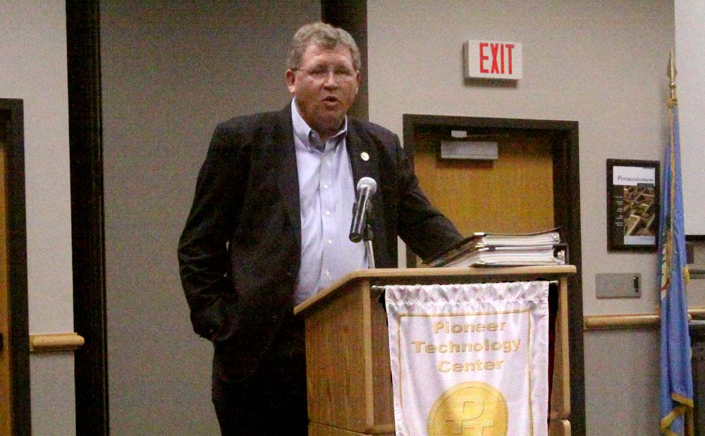 Oklahoma Congressman Frank Lucas speaks at a town hall meeting held in the Pioneer Technology Center in Ponca City, Oklahoma on September 26, 2011. Photo Credit: Hugh Pickens Note: This photo is licensed under a Creative Commons Attribution Share Alike 3.0 license which means that attribution must be provided with any use of this photo in the manner specified by the author. Any use of this photo or any derivative work using this photo in print or on the web must include as an attribution, a photo credit to Hugh Pickens as indicated above and, if used on the web, must include a link to the web site of Hugh Pickens at